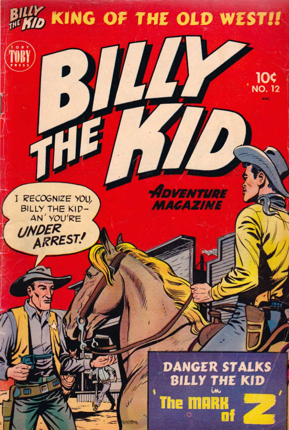 Comic book cover of Billy the Kid Adventure Magazine #12, Toby Press, Aug-Sep 1952